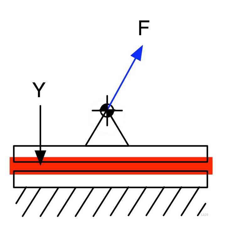 Principles drawing of a fuse fasten principle.